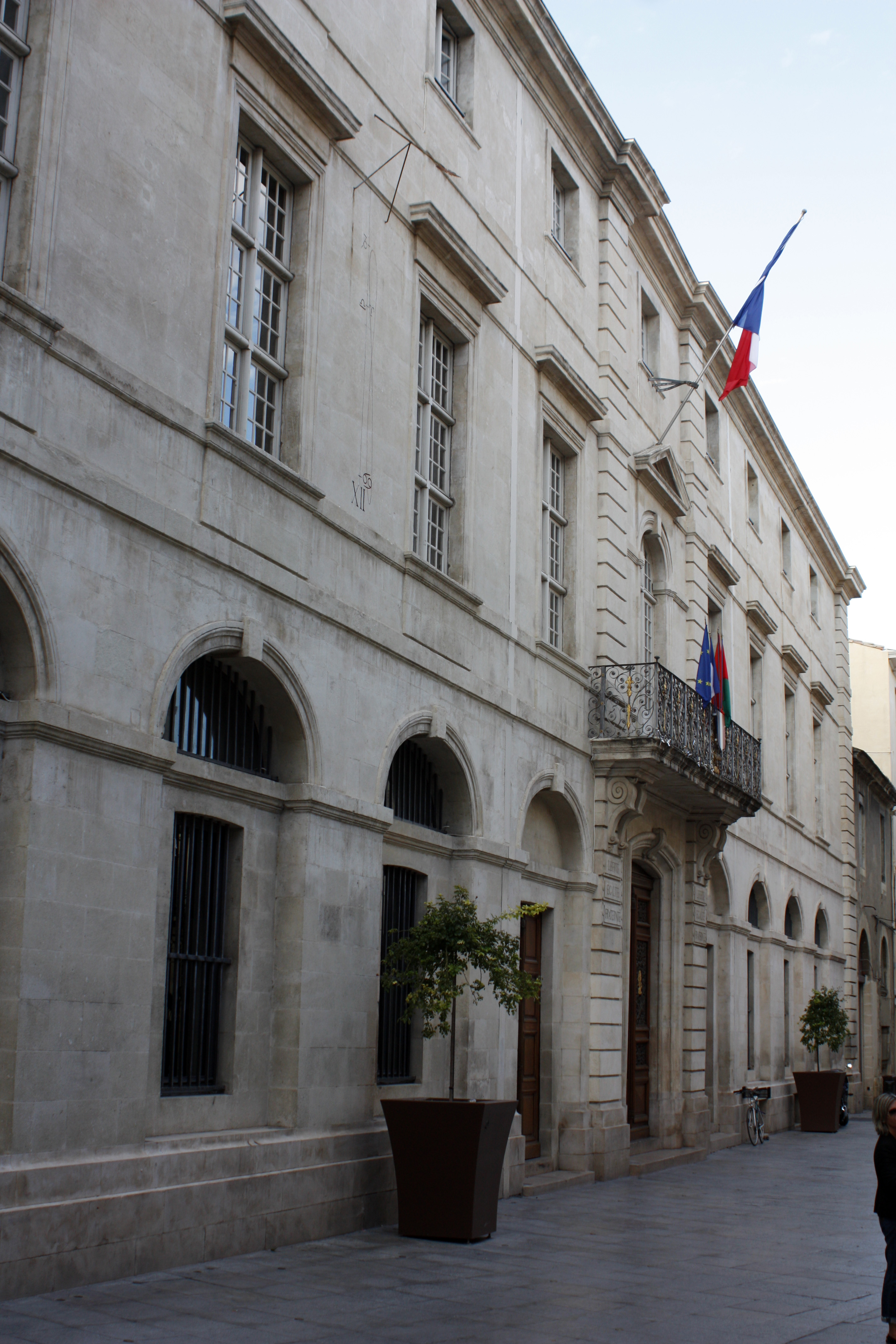 Town hall.